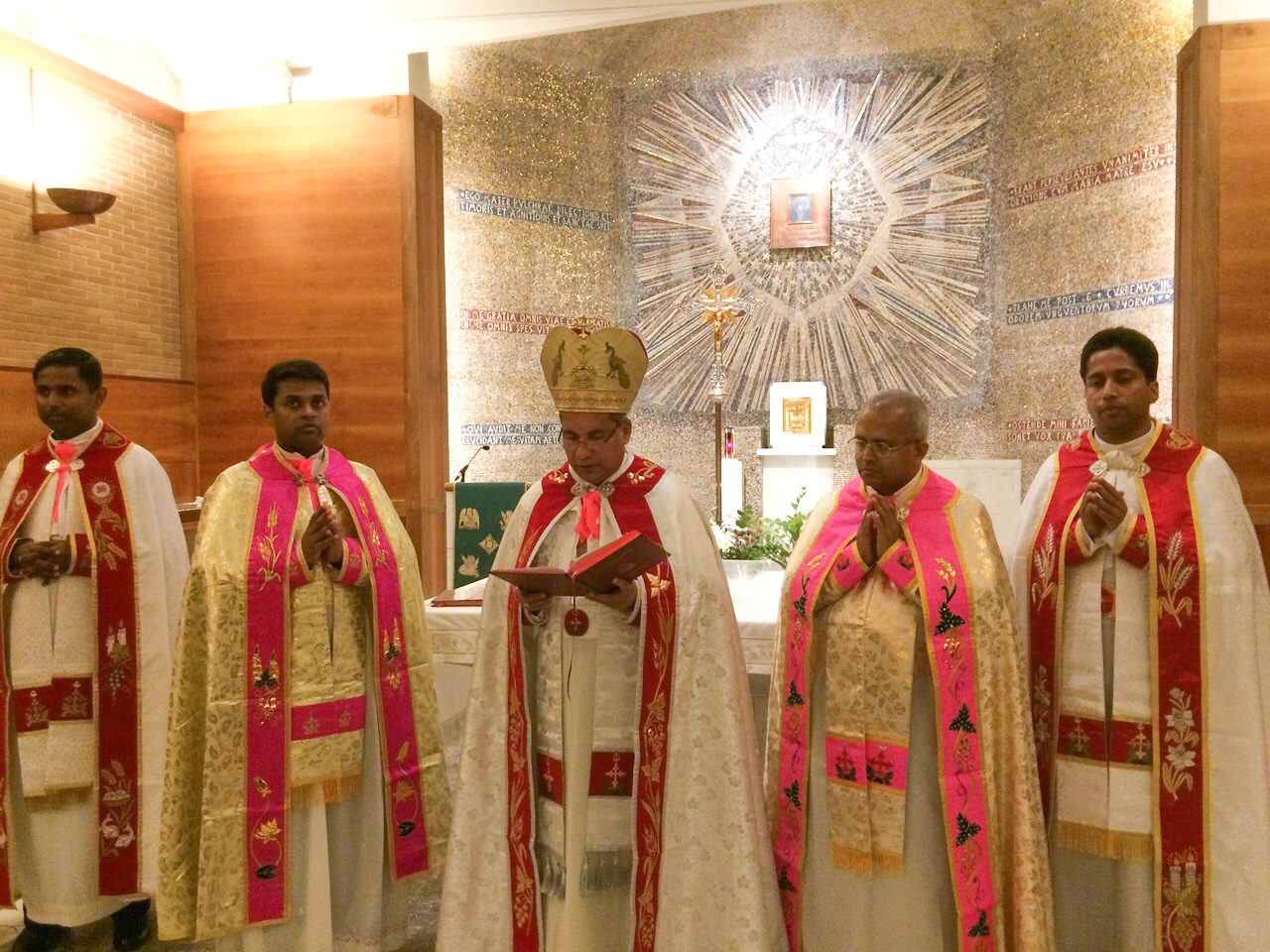 Mar Joseph Kallarangatt celebrates Holy Qurbana in Pastor Bonus Chapel Rome